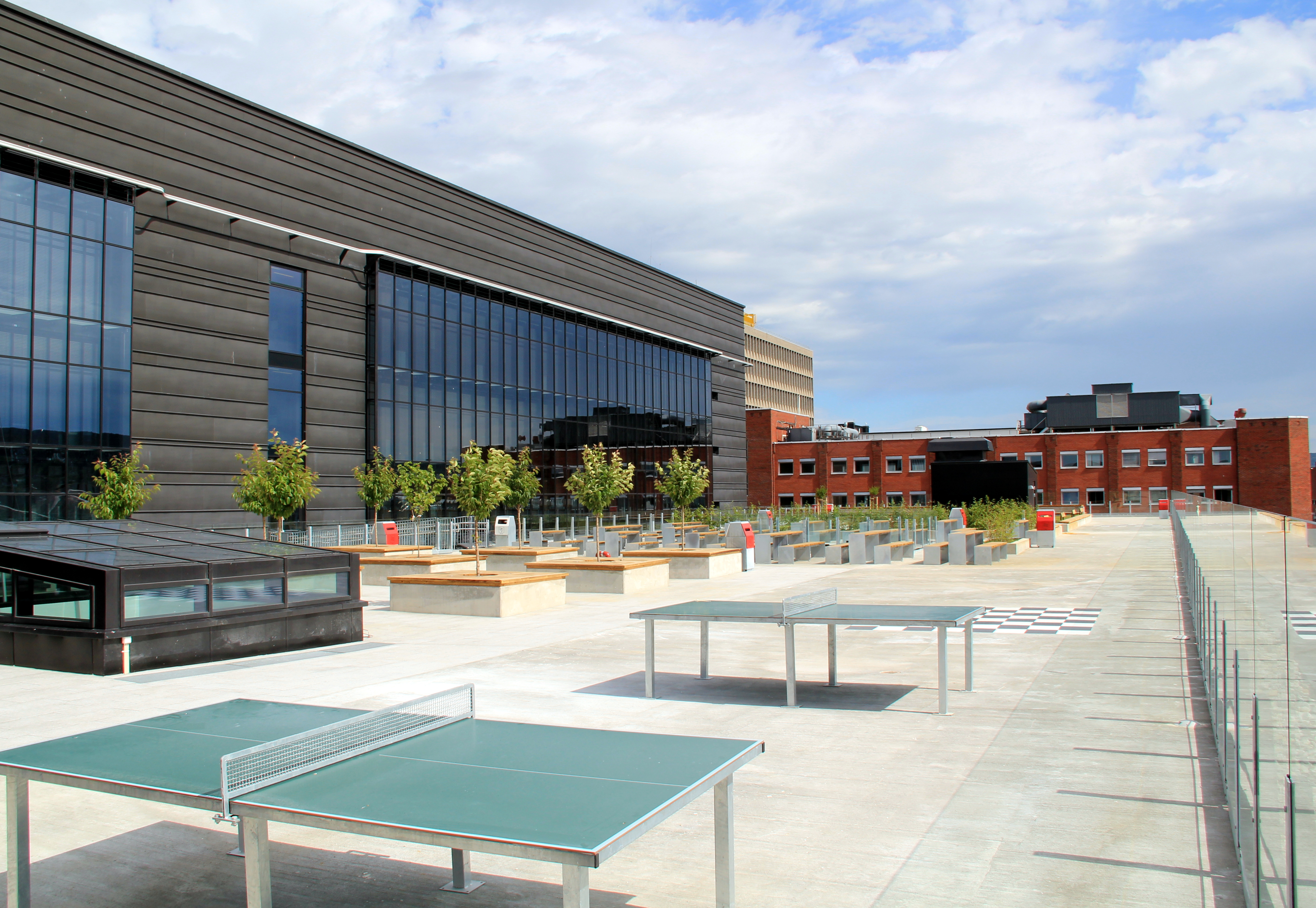 Kubens schoolyard is placed at the 3rd floor, on a roof terrace.